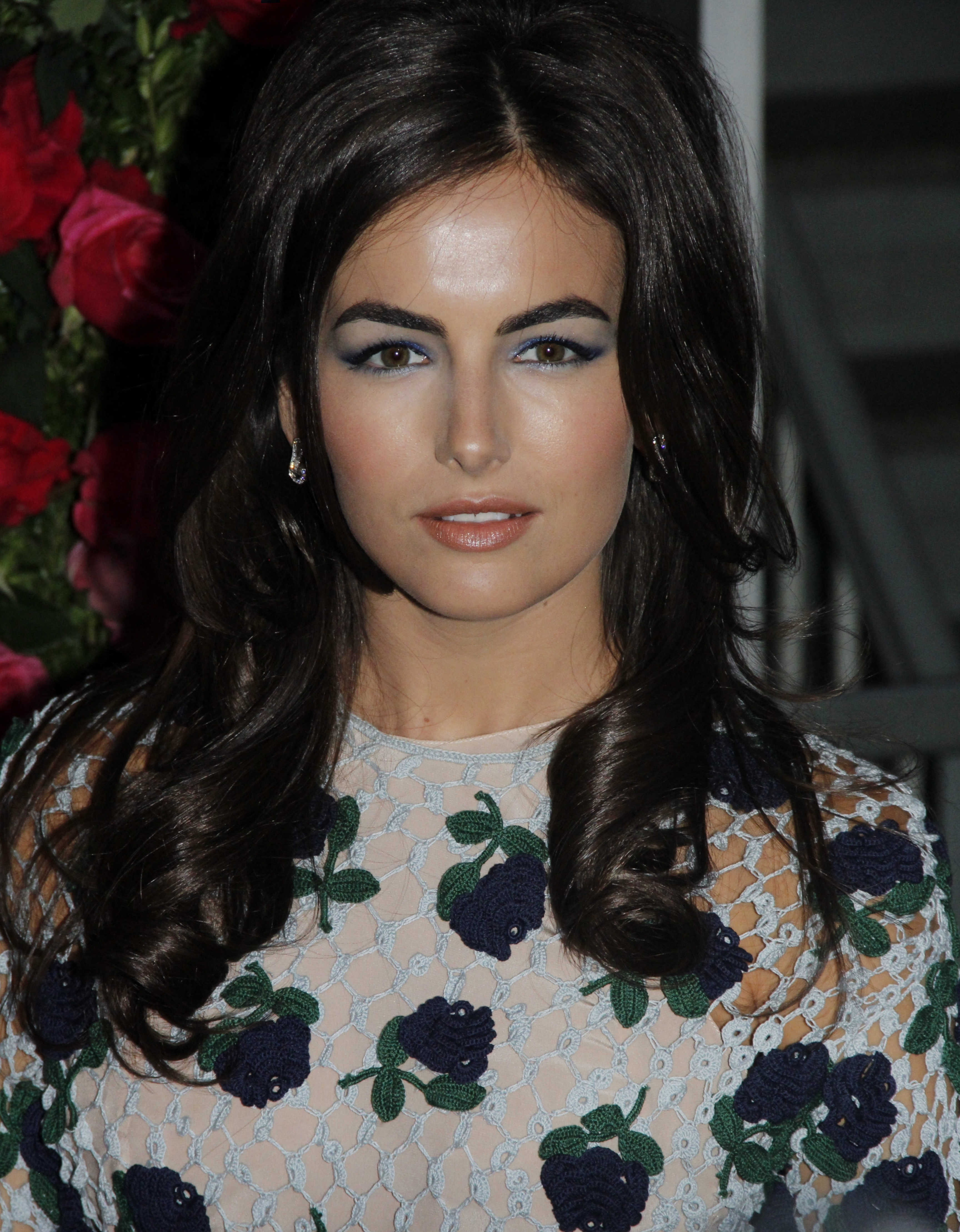 Camilla Belle at the 7th Annual Chanel Tribeca Film Festival Artists Dinner 2012.